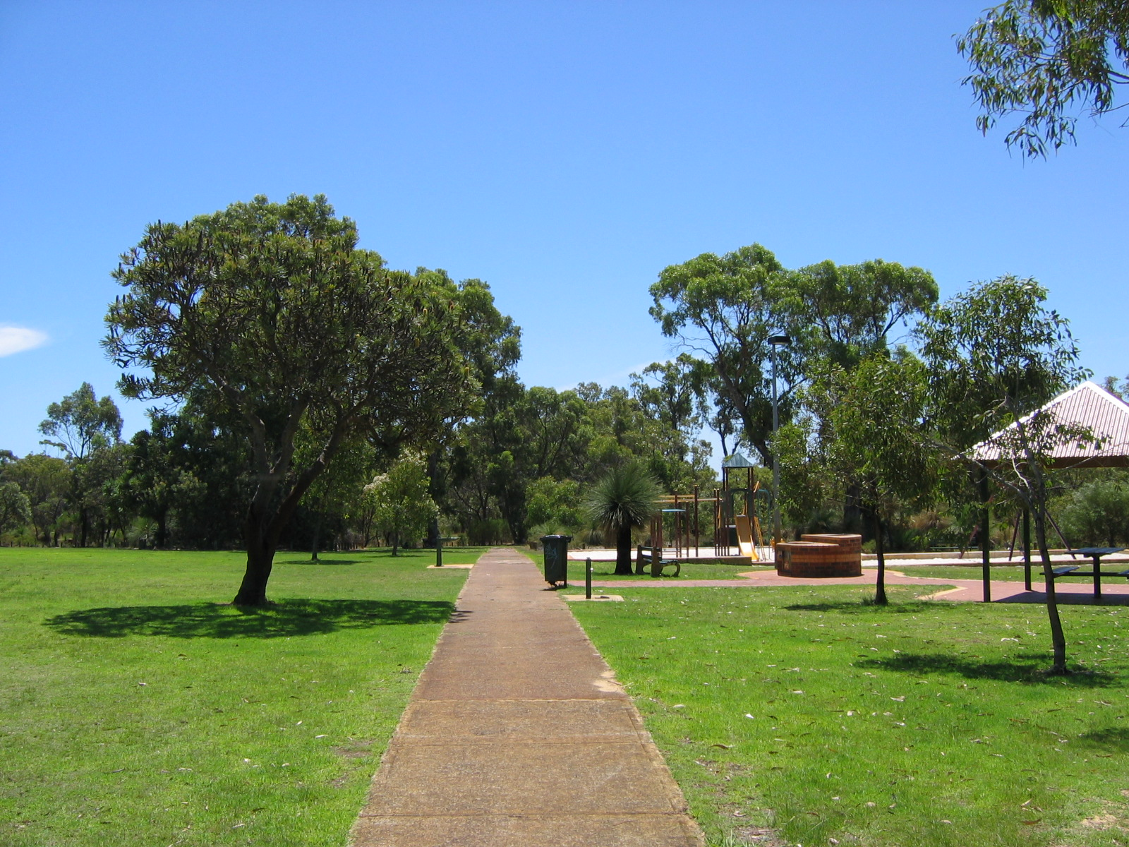 Part of the Rannoch-Tay-Earn Reserve looking northwest along the former Carine Road in Hamersley, Western Australia.